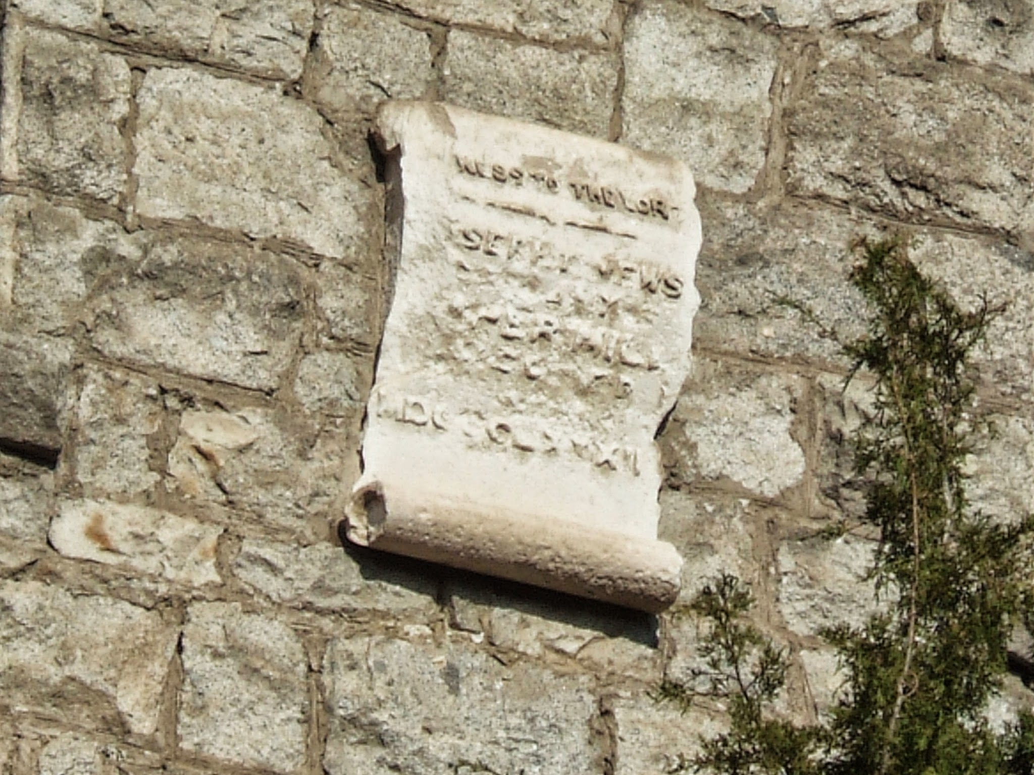 Holiness to the Lord Deseret News (unreadable) Paper Mill (unreadable)